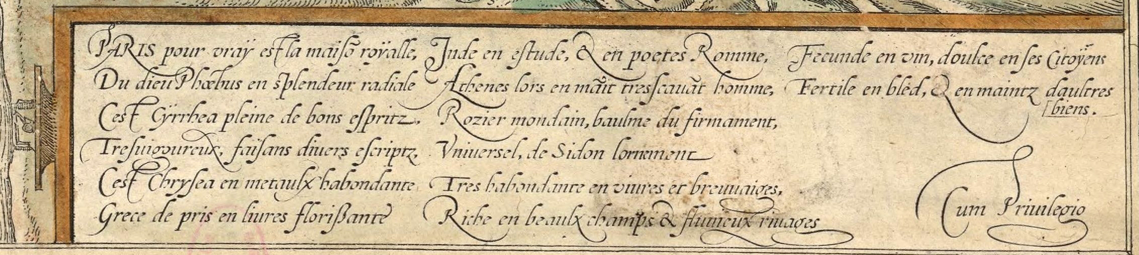 Detail on the plan of Braun and Hogenberg (c.1530, published in 1572, edition of 1593).